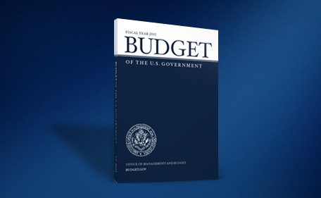 The fiscal year 2015 United States federal budget proposal offered by President Barack Obama, in book format.